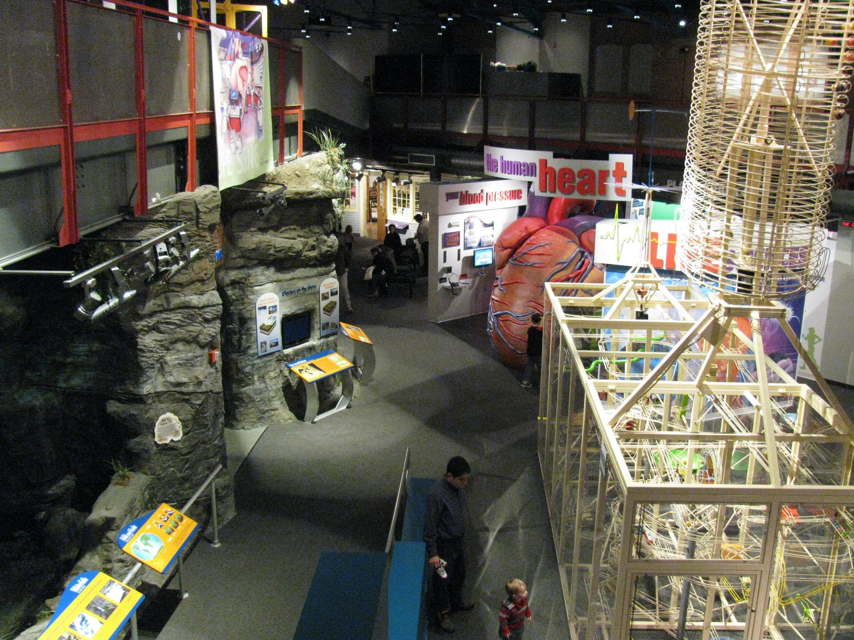 Exhibts at the MOST. Syracuse, NY.